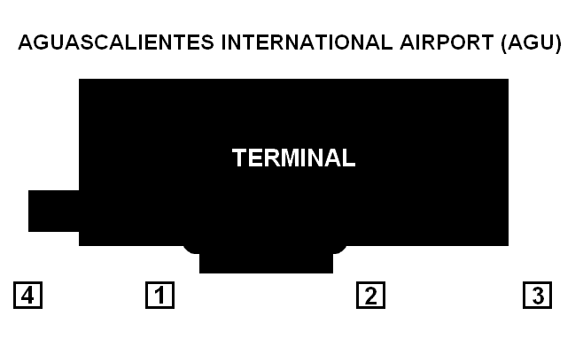 Aguascalientes International Airport Terminal